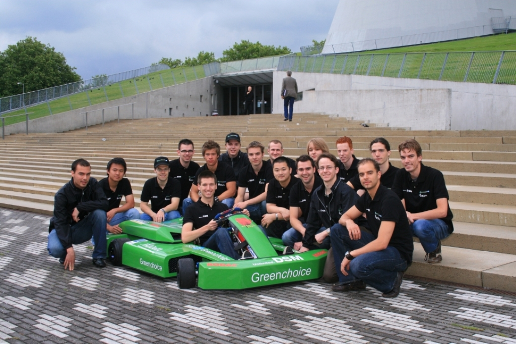 Team photo shot at the library of the Delft University of Technology